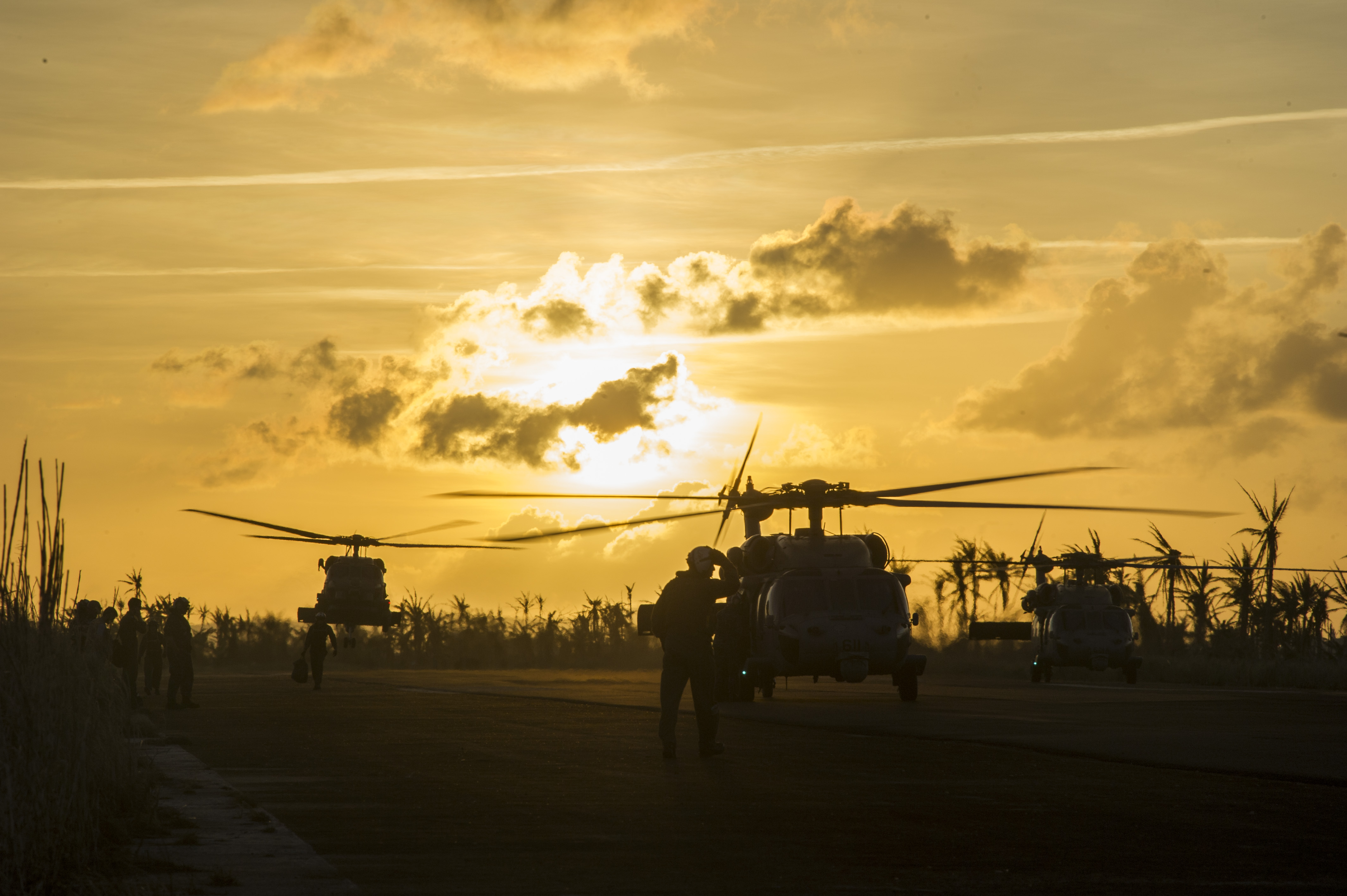 131116-N-TE278-086 GUIUAN, Eastern Samar Province, Republic of the Philippines (Nov. 16, 2013) Sailors wait to board three helicopters to return to the U.S. Navy's forward-deployed aircraft carrier USS George Washington (CVN 73) after delivering food, water and other humanitarian supplies in support of Operation Damayan. The George Washington Strike Group supports the 3rd Marine Expeditionary Brigade to assist the Philippine government in response to the aftermath of the Super Typhoon Haiyan in the Republic of the Philippines.